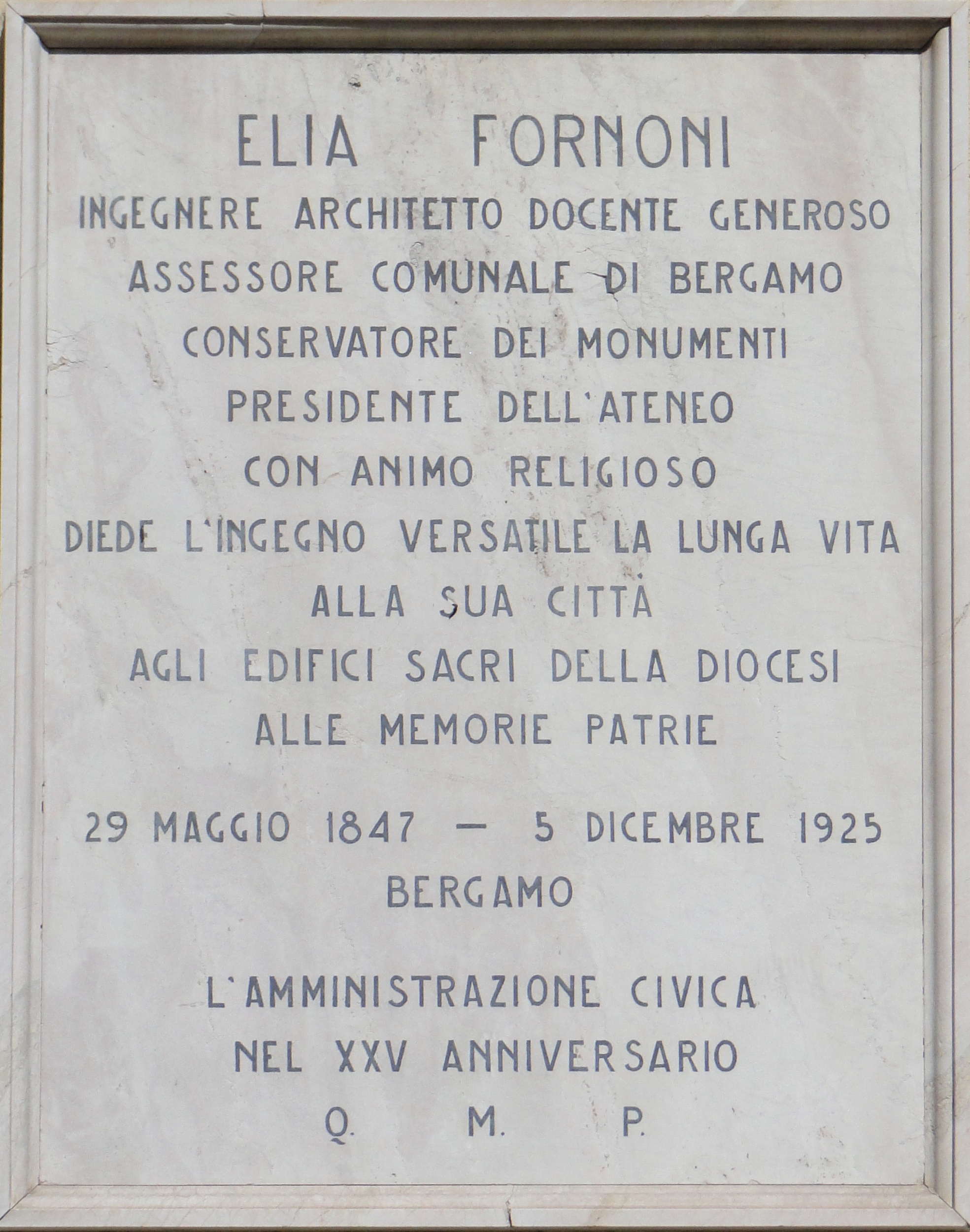 Elia Fornoni epigraph, Bergamo, Italy